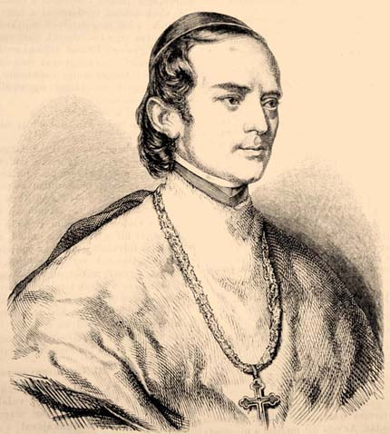 Portrait of János Ranolder